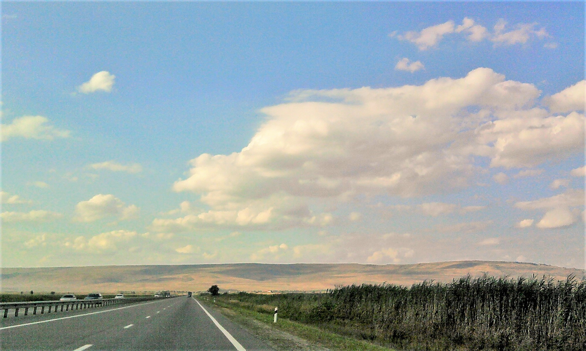 Stavropol Hills at a distance of 8 km